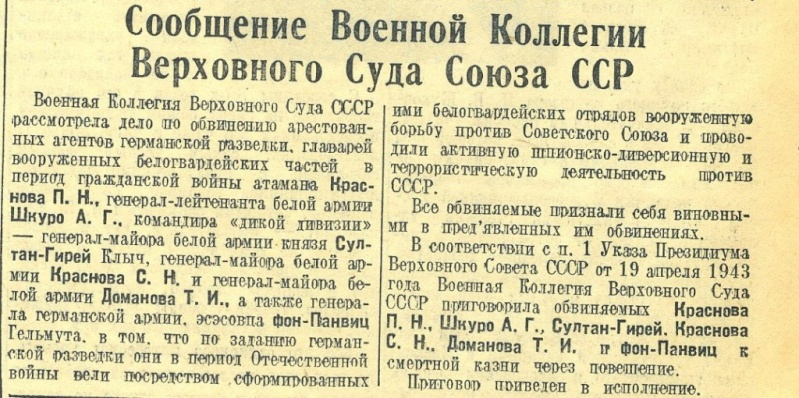 The verdict in the case of ataman Krasnov P.N. and other on January 16, 1947. Information note of the newspaper "Pravda".